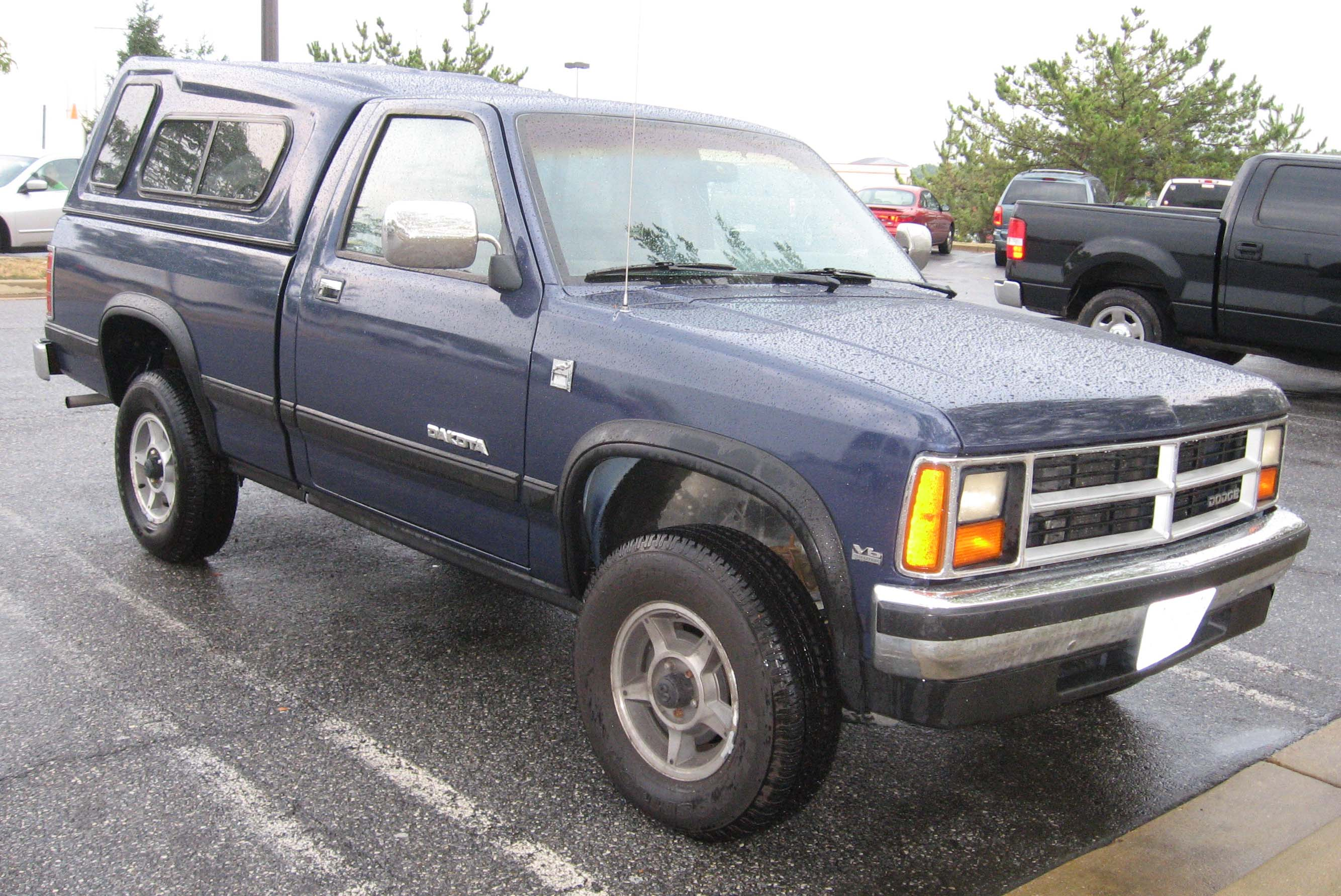 1987-1990 Dodge Dakota photographed in USA.